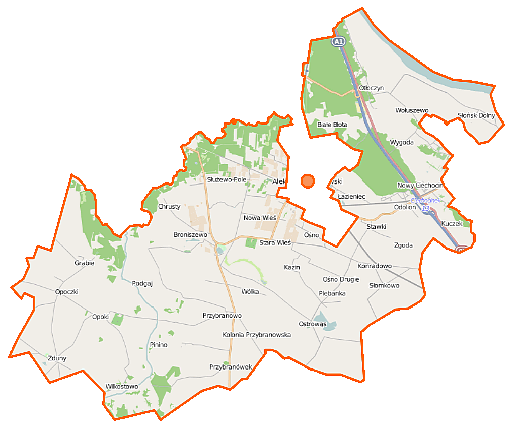 Map of Gmina Aleksandrów Kujawski, Poland This map of Aleksandrów Kujawski (gmina wiejska) was created from OpenStreetMap project data, collected by the community. This map may be incomplete, and may contain errors. Don't rely solely on it for navigation.